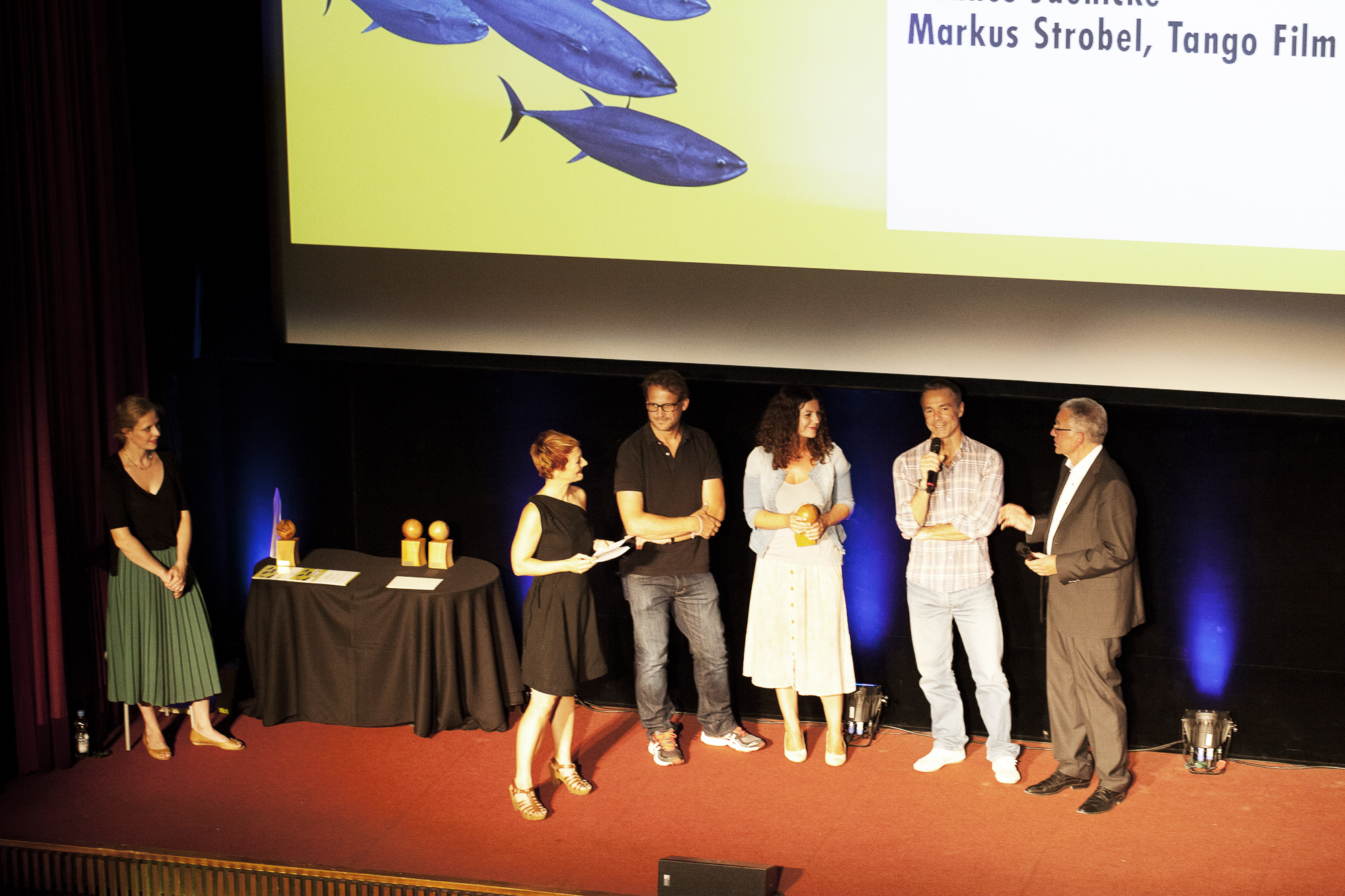 German actor Hannes Jaennicke and his team receive 2014's special NaturVision film award for their film on elephants and their slaughter for ivory in the series "Hannes Jaennicke im Einsatz für...".